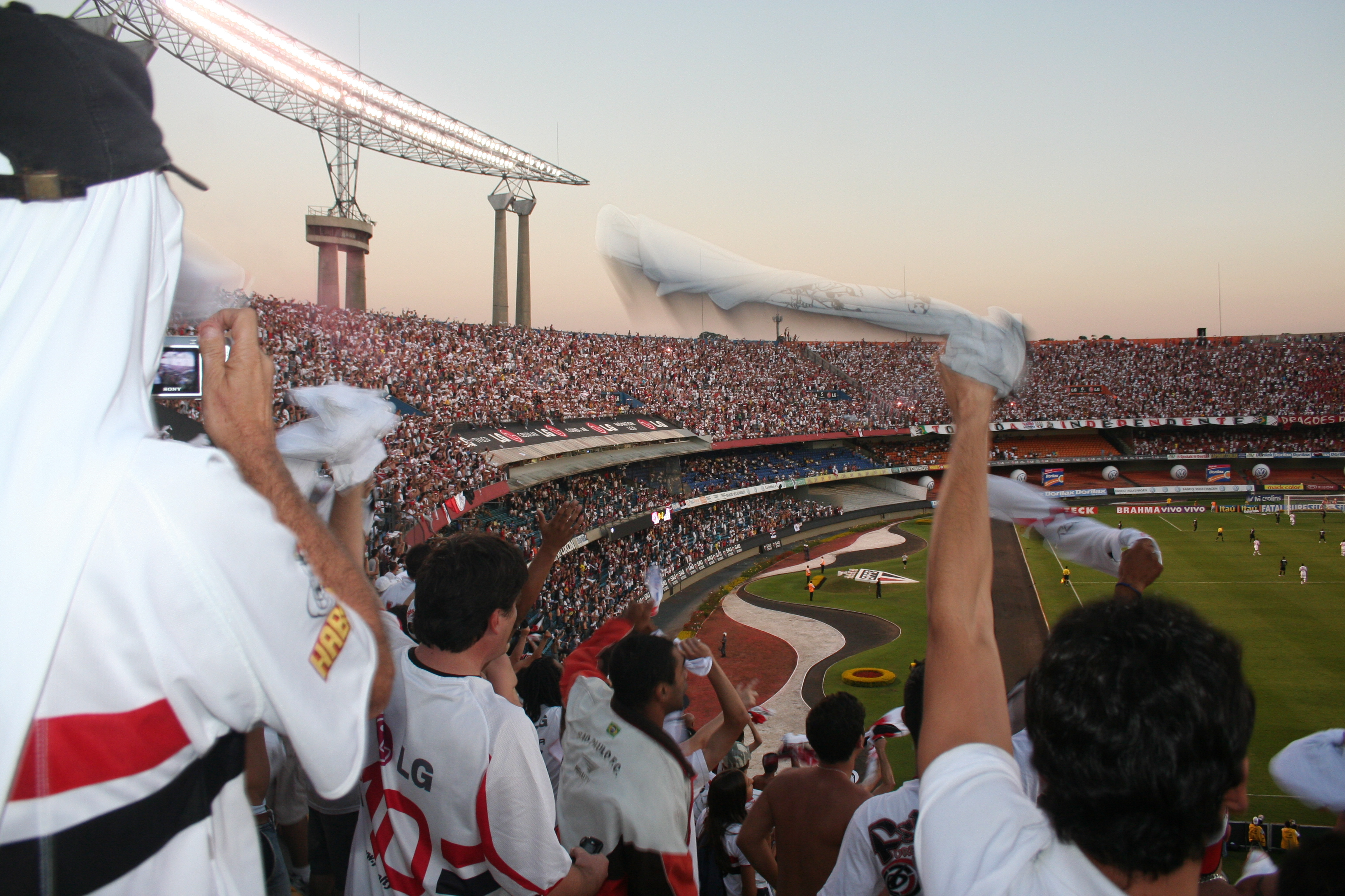 second semifinal match of Paulista Championship of 2009 between São Paulo and Corinthians in Cícero Pompeu de Toledo stadium, known as Morumbi. One of the most important brazilian derbies. The game ended 0 to 2. View of the São Paulo supporters.